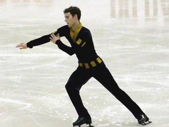 Matthew Savoie at the 2003 NHK Trophy.